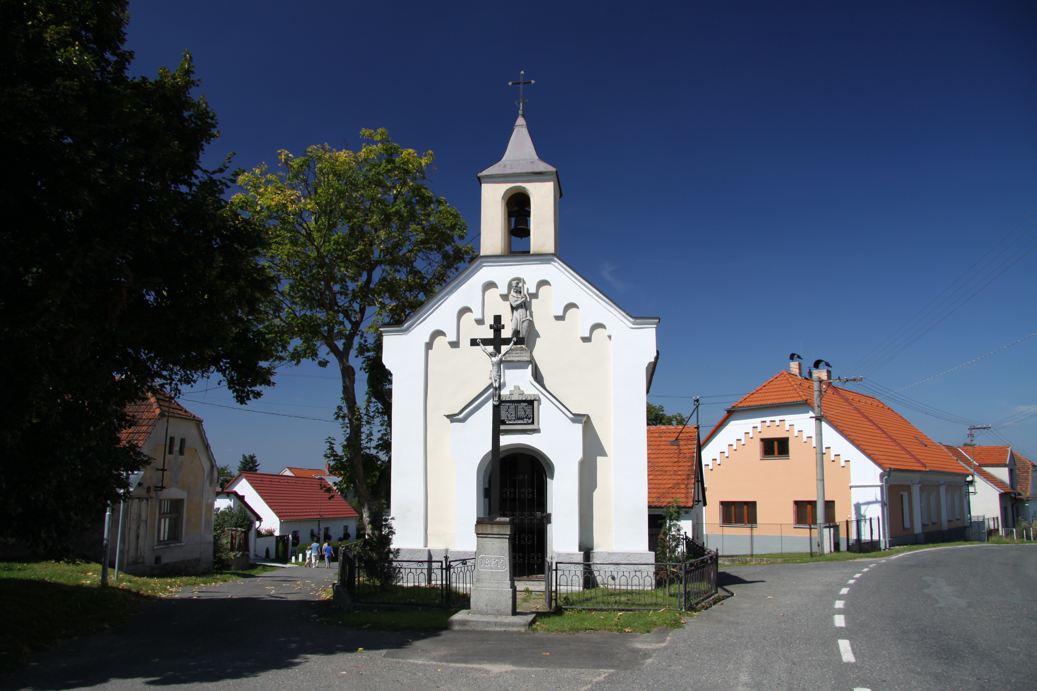 Chapel in Vráž village, Písek District, Czech Republic